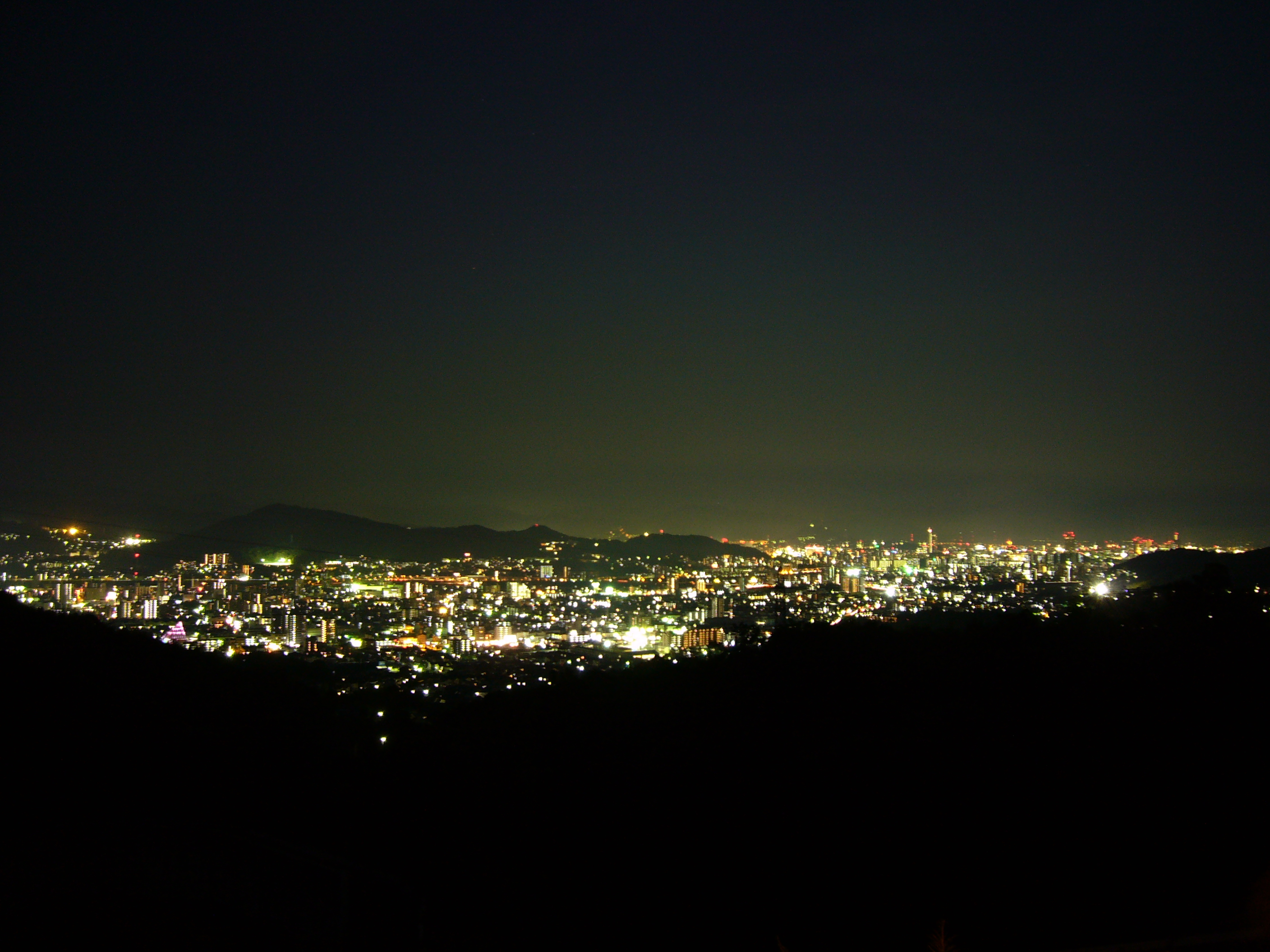 The night view seen from Kasugano, Hiroshima City